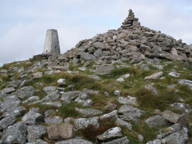 Trig point and summit cairn, Brown Willy